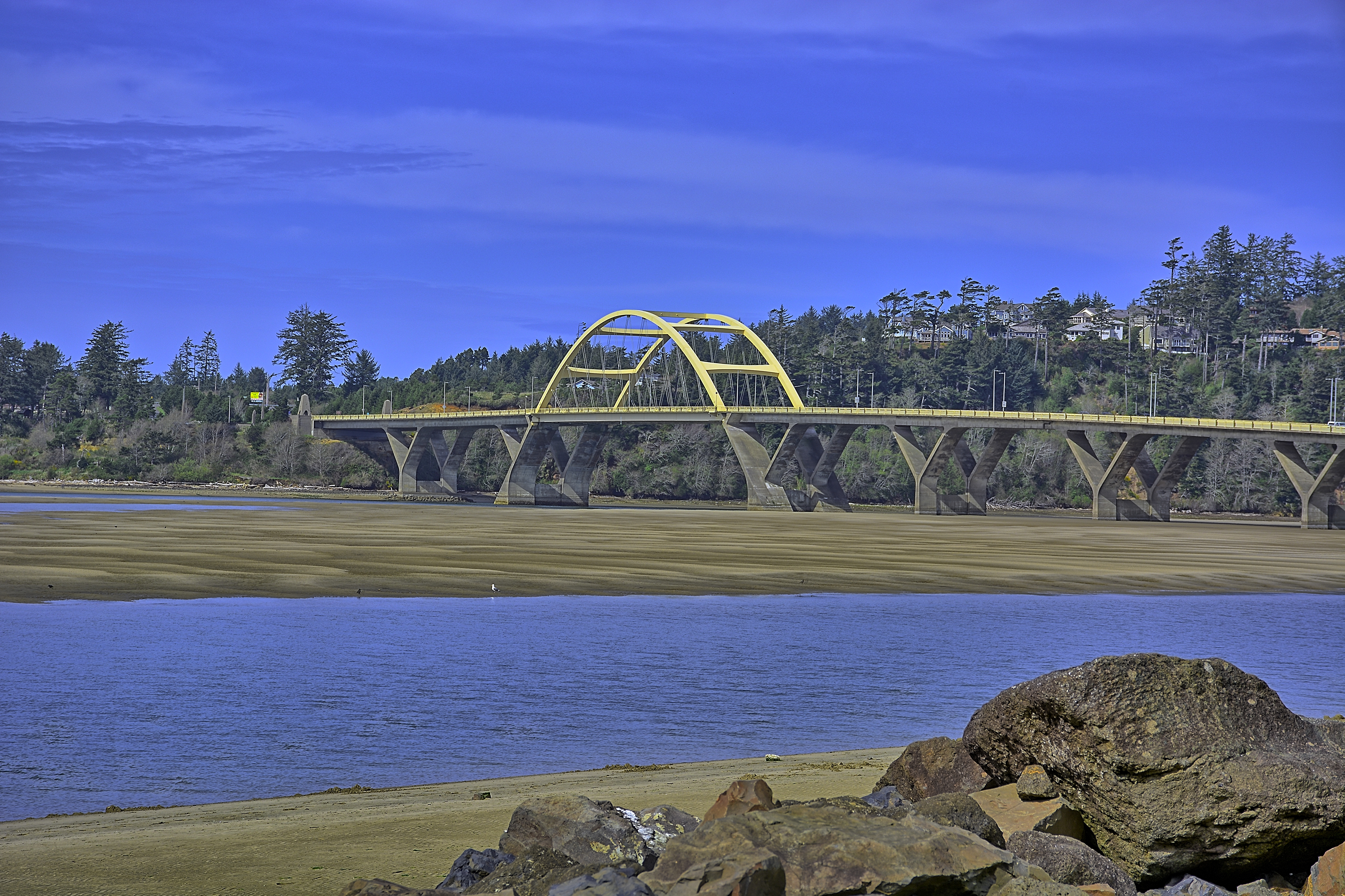 The Alsea Bay Bridge is a concrete arch bridge that spans the Alsea Bay on U.S. Route 101 near Waldport, Oregon. The first bridge over the Alsea Bay was designed by Conde McCullough and opened in 1936. It was a 3,011 feet long. The hostile environment caused significant corrosion to the steel reinforcements. In 1972 the Oregon Department of Transportation began projects aimed at extending the life of the bridge. By the mid-1980's it was decided to replace the bridge rather than continuing costly rehabilitation efforts. The first bridge was demolished in 1991. Construction of the second bridge, began in 1988, and it was opened in the fall of 1991 at a cost of $42.4 million. The bridge is 2,910 ft in total length, with a 450 ft main span that provides 70 ft of vertical clearance. The bridge has a latex concrete deck and the piers are significantly thicker than normal in an attempt to thwart corrosion. Its life expectancy is 75 to 100 years. Description from Wikipedia.